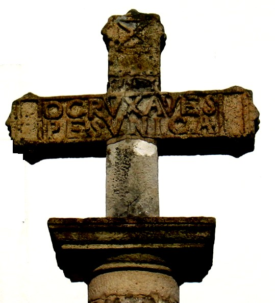 OCRUXAVES PESUNICA